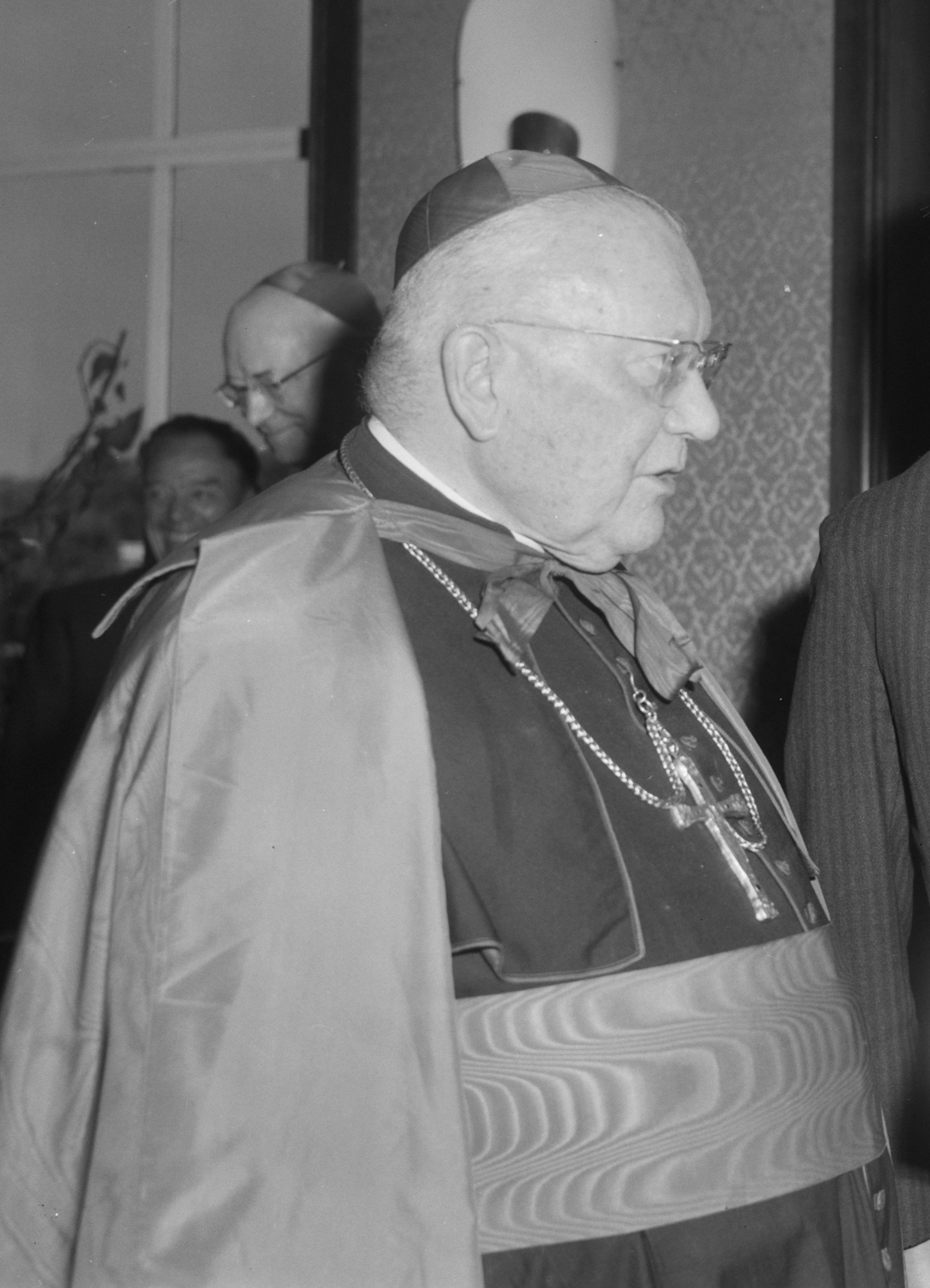 International congress Pax Christi in Den Bosch, from left to right: cardinal Feltin (Paris), Dutch prime minister Victor Marijnen and Dutch cardinal Alfrin. 8 Sept. 1964